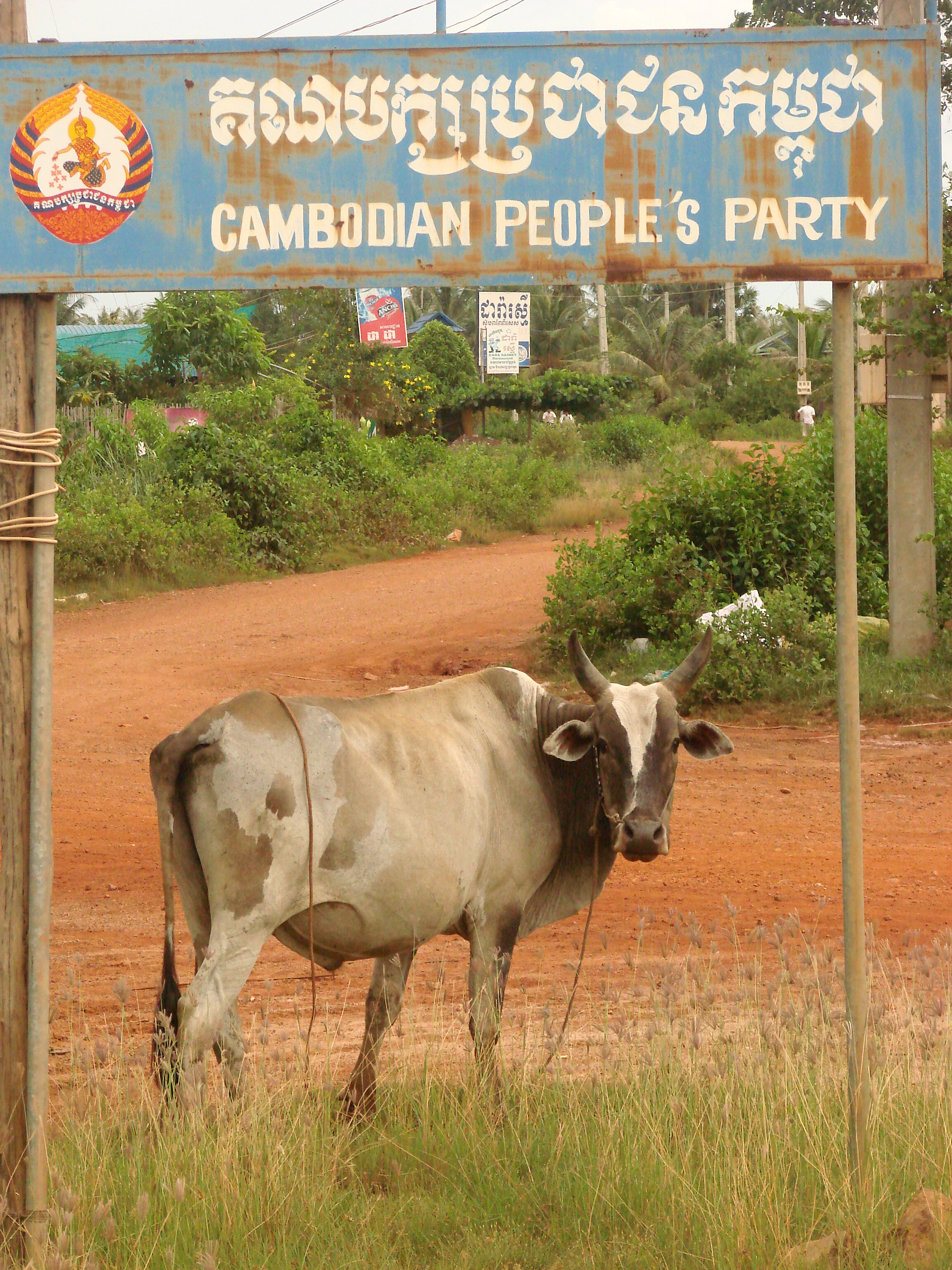 A cow stands beneath a sign for the Cambodian People's Party, Kampot, Cambodia.